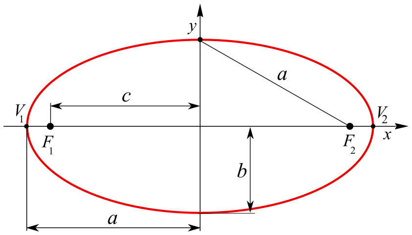 ellipse